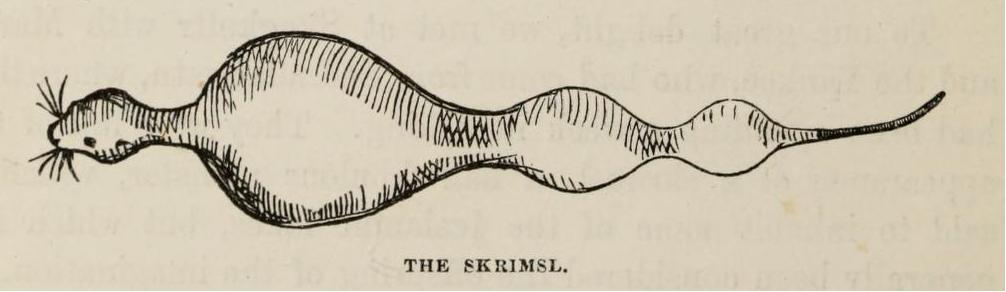 A monster (skrimsl) reportedly seen at Skorradalsvatn, which "measures forty-six feet long".